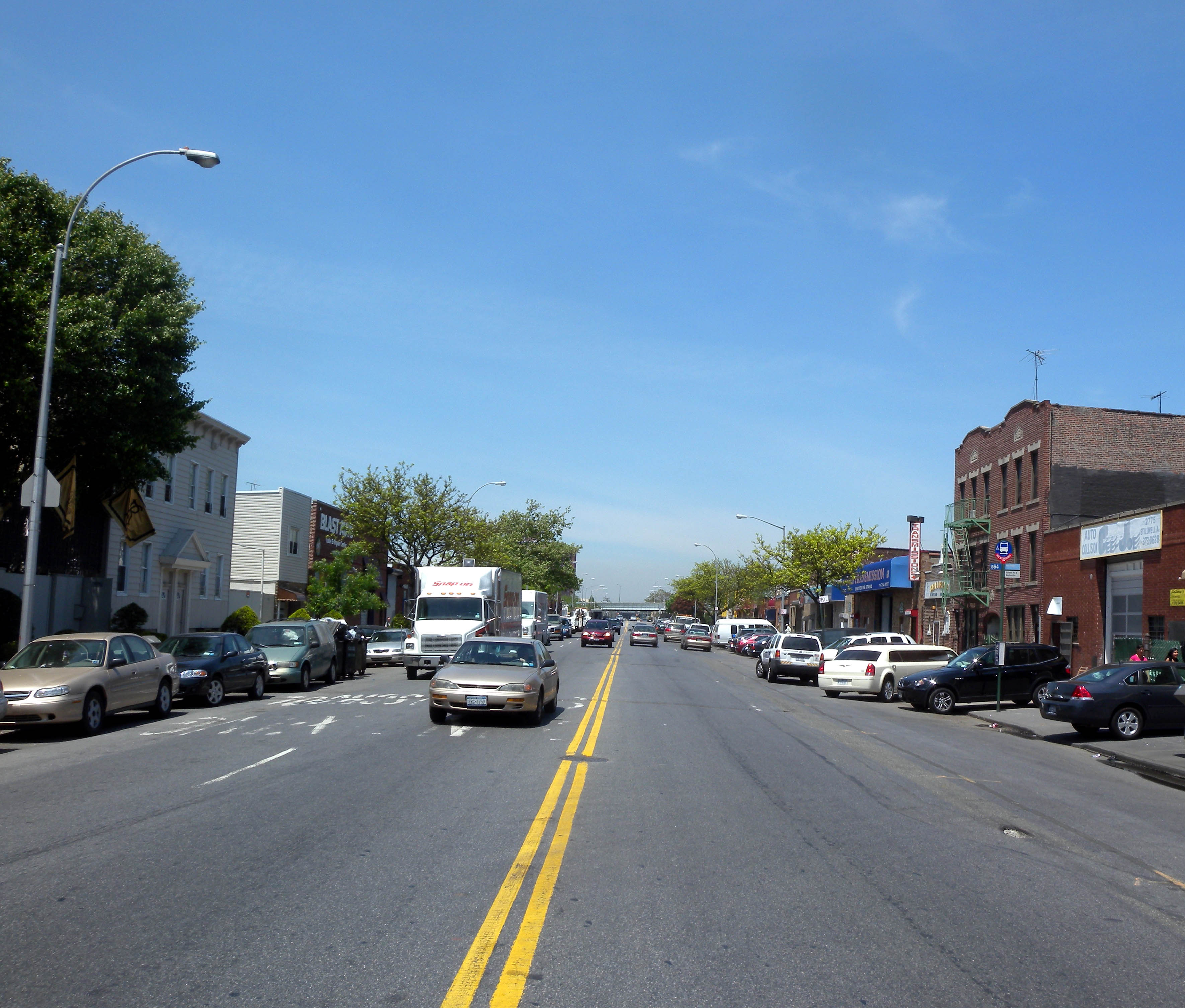 Looking north along Stillwell Avenue from Neptune Avenue on a sunny midday.